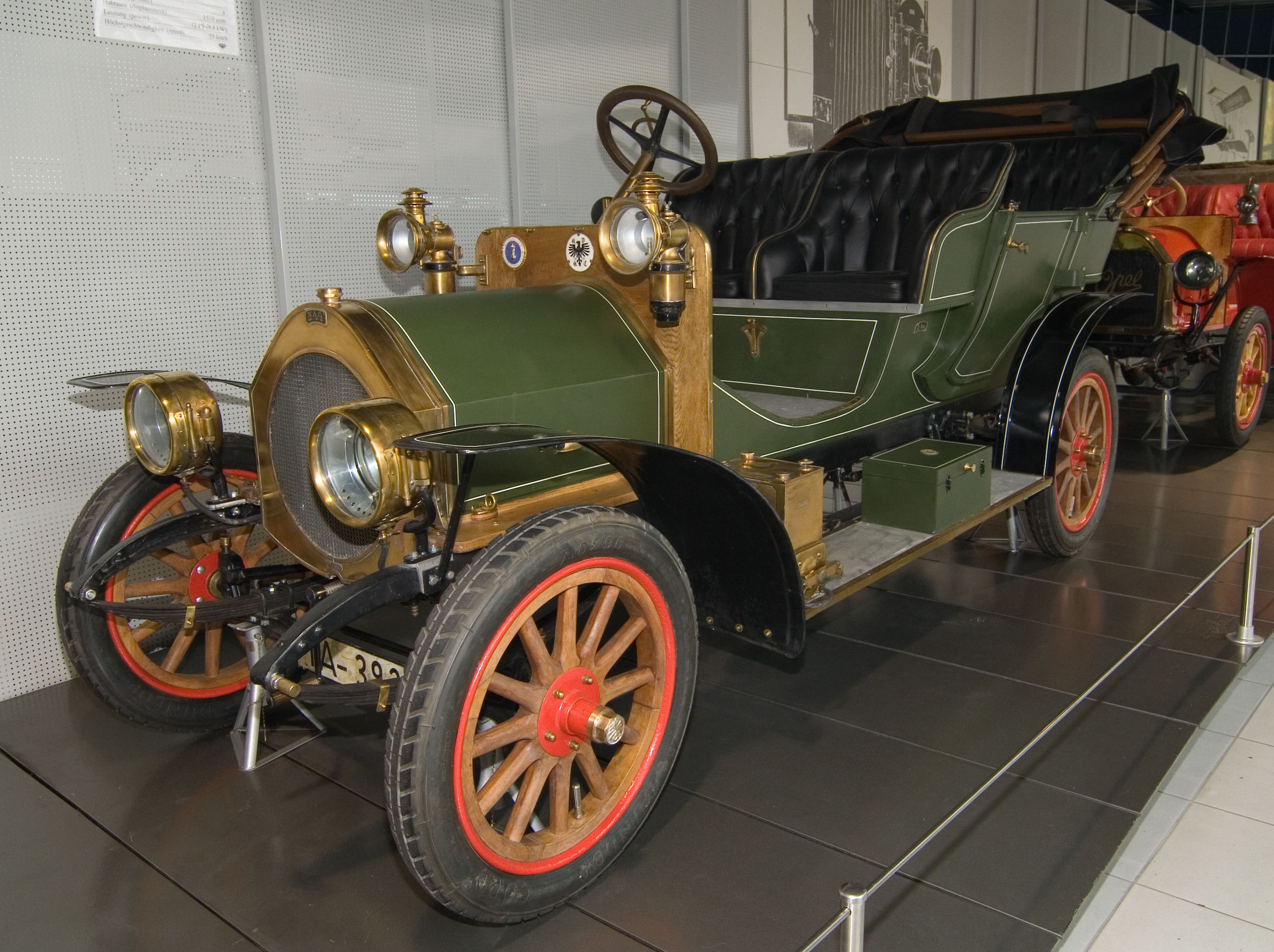 NAG car from 1908; Photo made in [1]